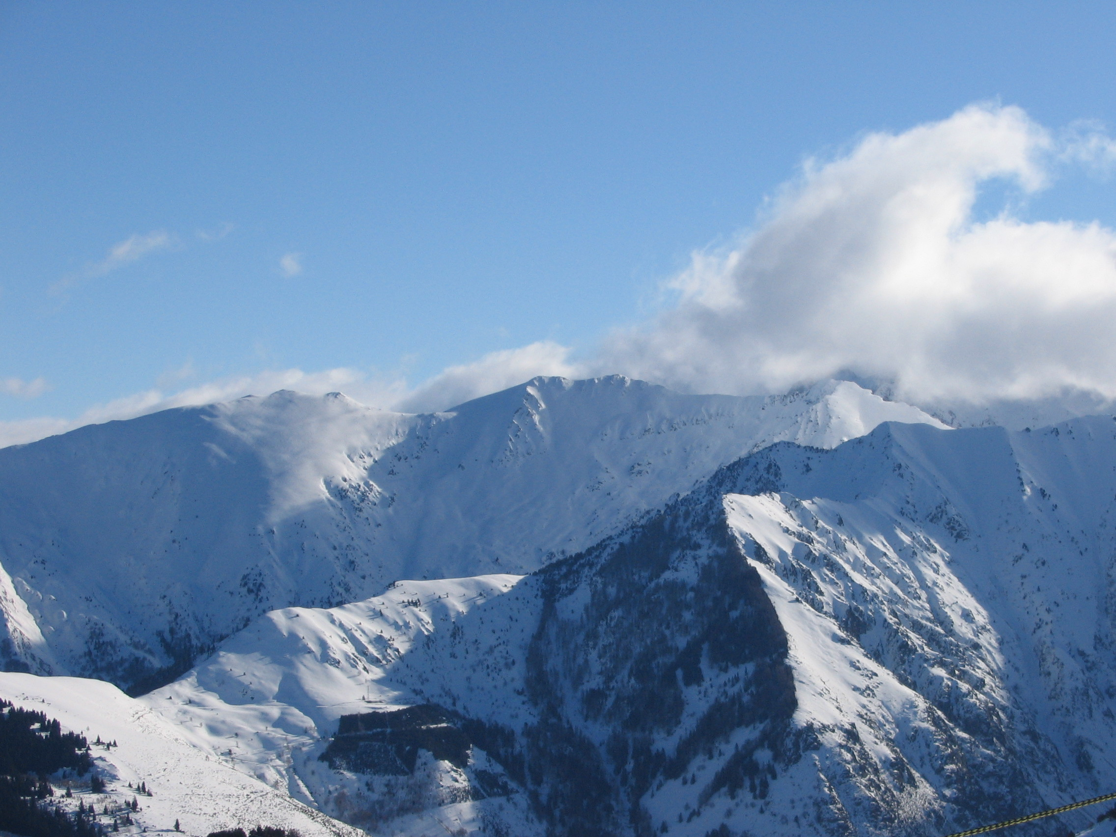 Ax 3 Domaines